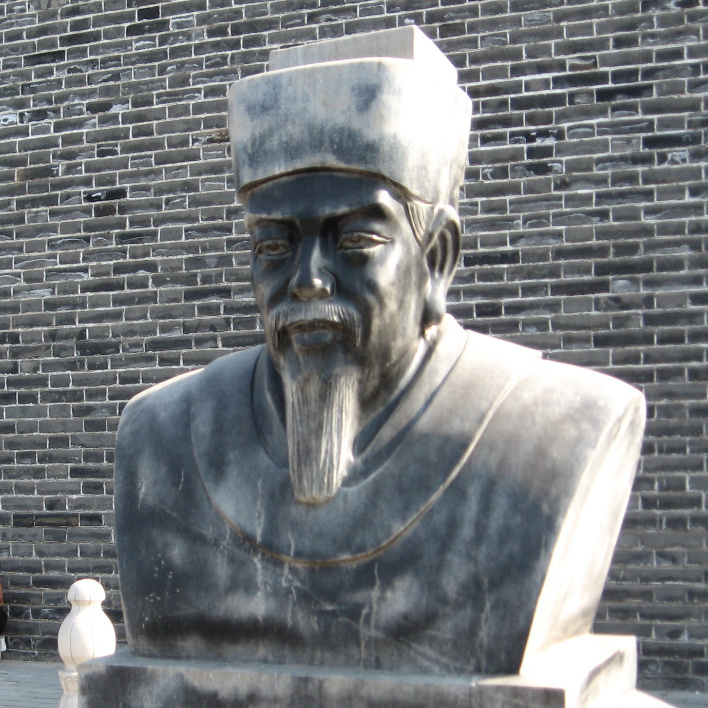 A statue of Zhao Pu.中国河北省正定县南城门（长乐门）内的赵普雕像。